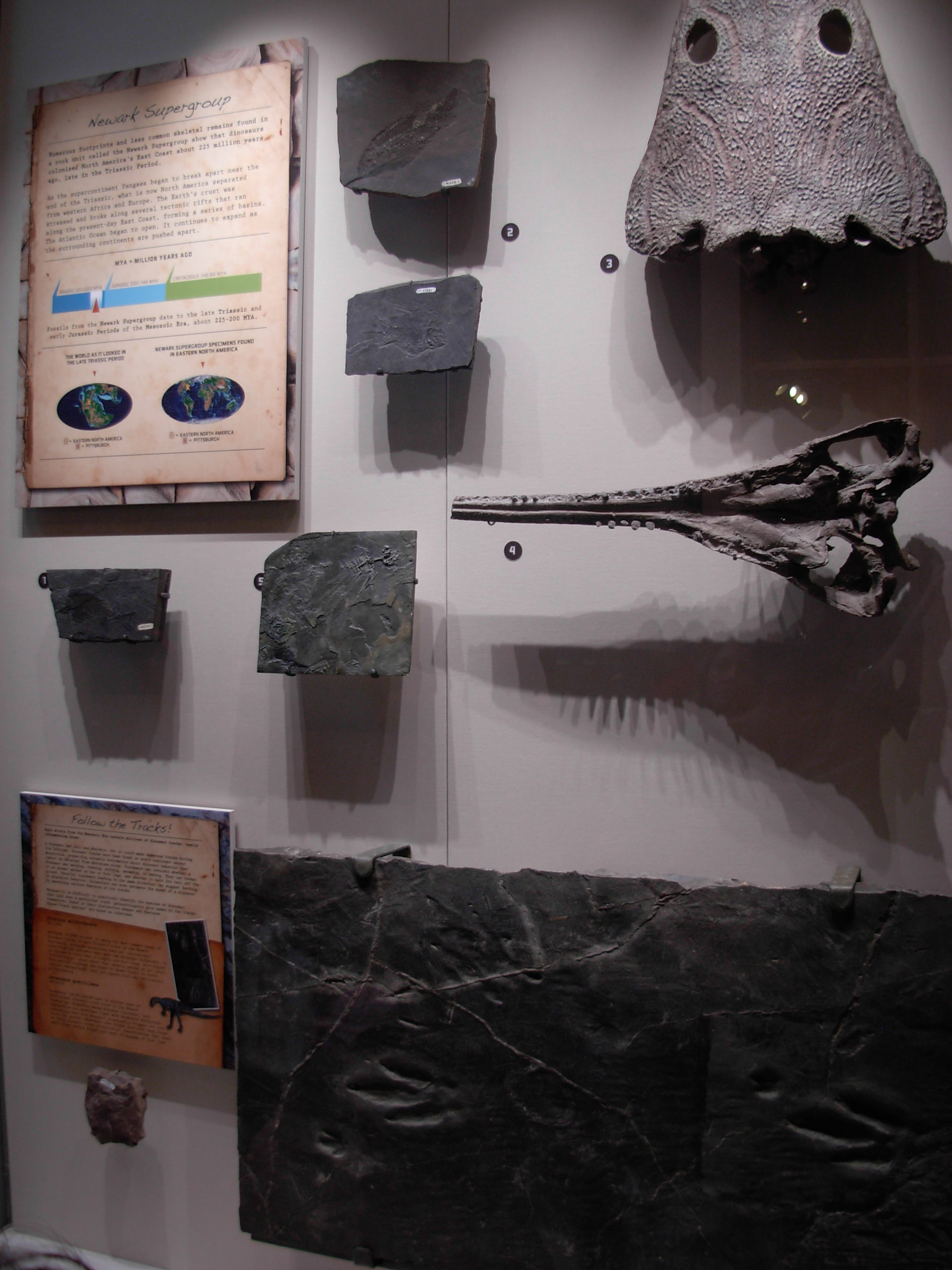 Fossil samples – e.g. ‘primitive’ bony fish (1, 2), a skull of a temnospondyl ‘amphibian’ (probably a metoposauroid) in dorsal view (3), a skull of an archosaur of the crocodile lineage (probably a phytosaur) in palatal view (4), holotype of the “gliding reptile” Icarosaurus siefkeri [1] (5) and Atreipus-Grallator-type dinosaur tracks (bottom right) – from the Newark Supergroup, i.e. a series of mainly Late Triassic to Early Jurassic sedimentary rocks of eastern North America ↑ Edwin H. Colbert: A gliding reptile from the Triassic of New Jersey. American Museum Novitates, 2230. American Museum of Natural History, New York 1966, , cf. fig. 3 therein.